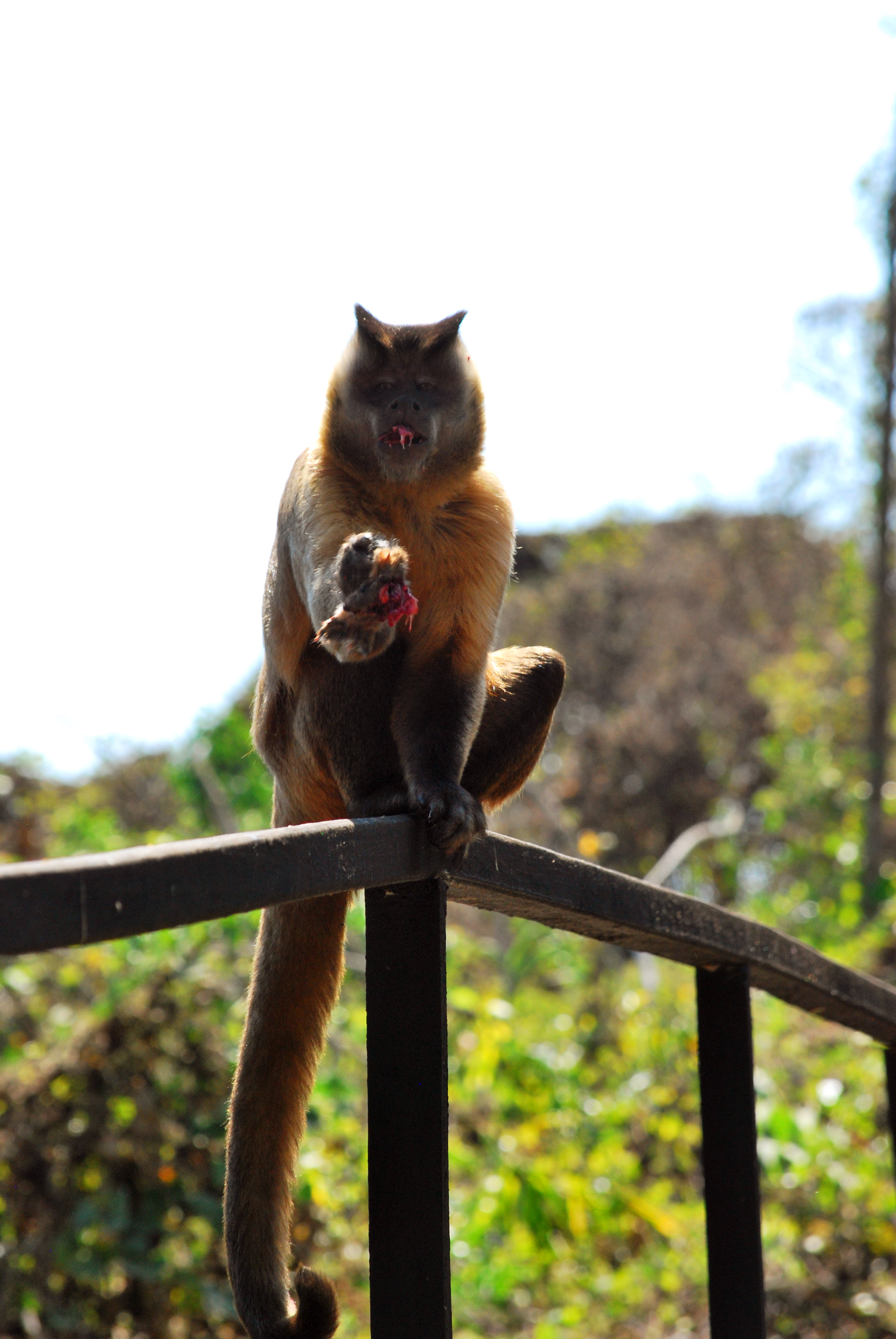 Sapajus libidinosus paraguaynus (S. cay) in Porto Cercado, Cuiabá river, Pantanal of Mato Grosso do Sul, Brazil. It's eating a mouse.